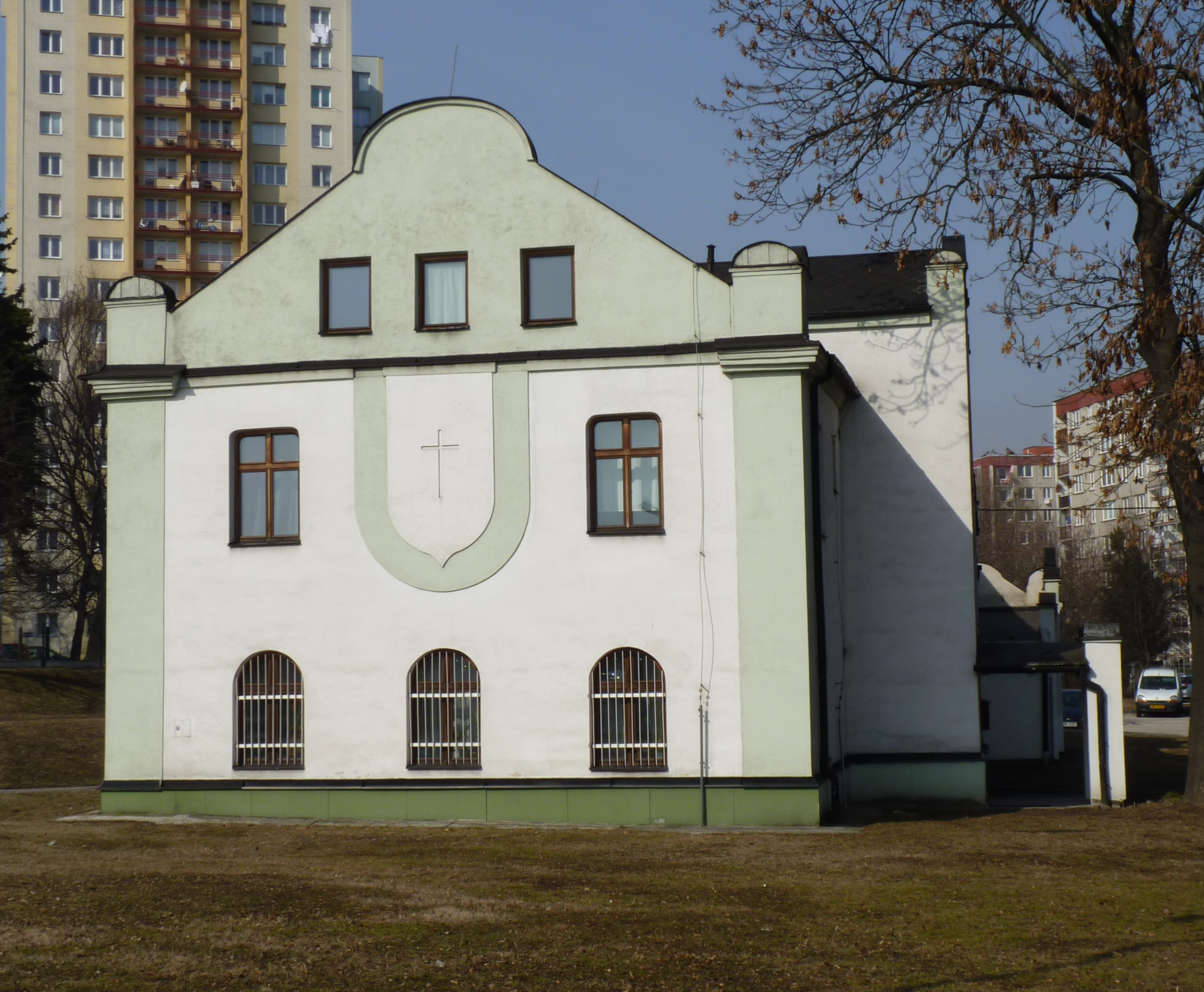 Zábřeh, Ostrava, Ostrava-city District, Moravian-Silesian Region, Czech Republic